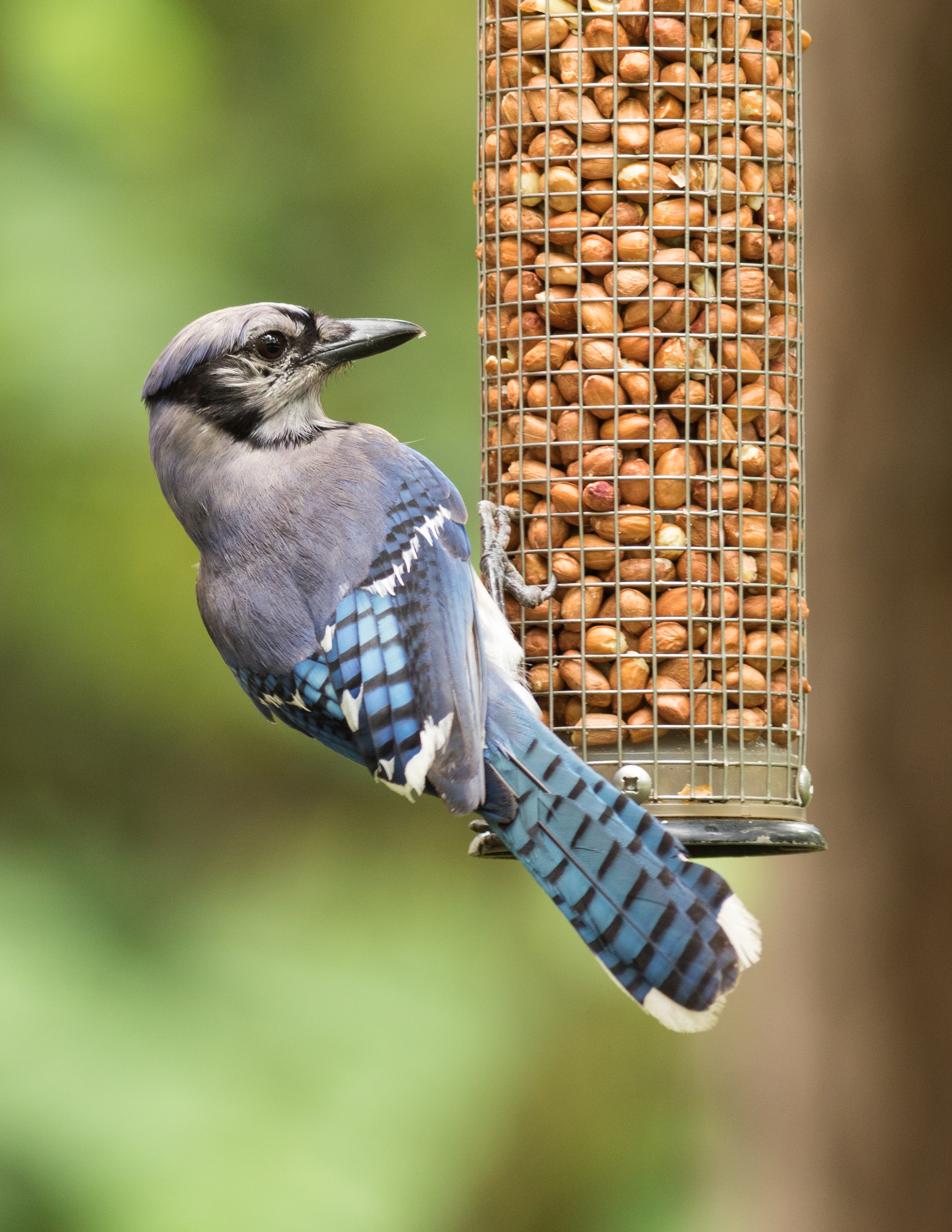 A blue jay (Cyanocitta cristata) on a bird feeder in Houston, Texas.